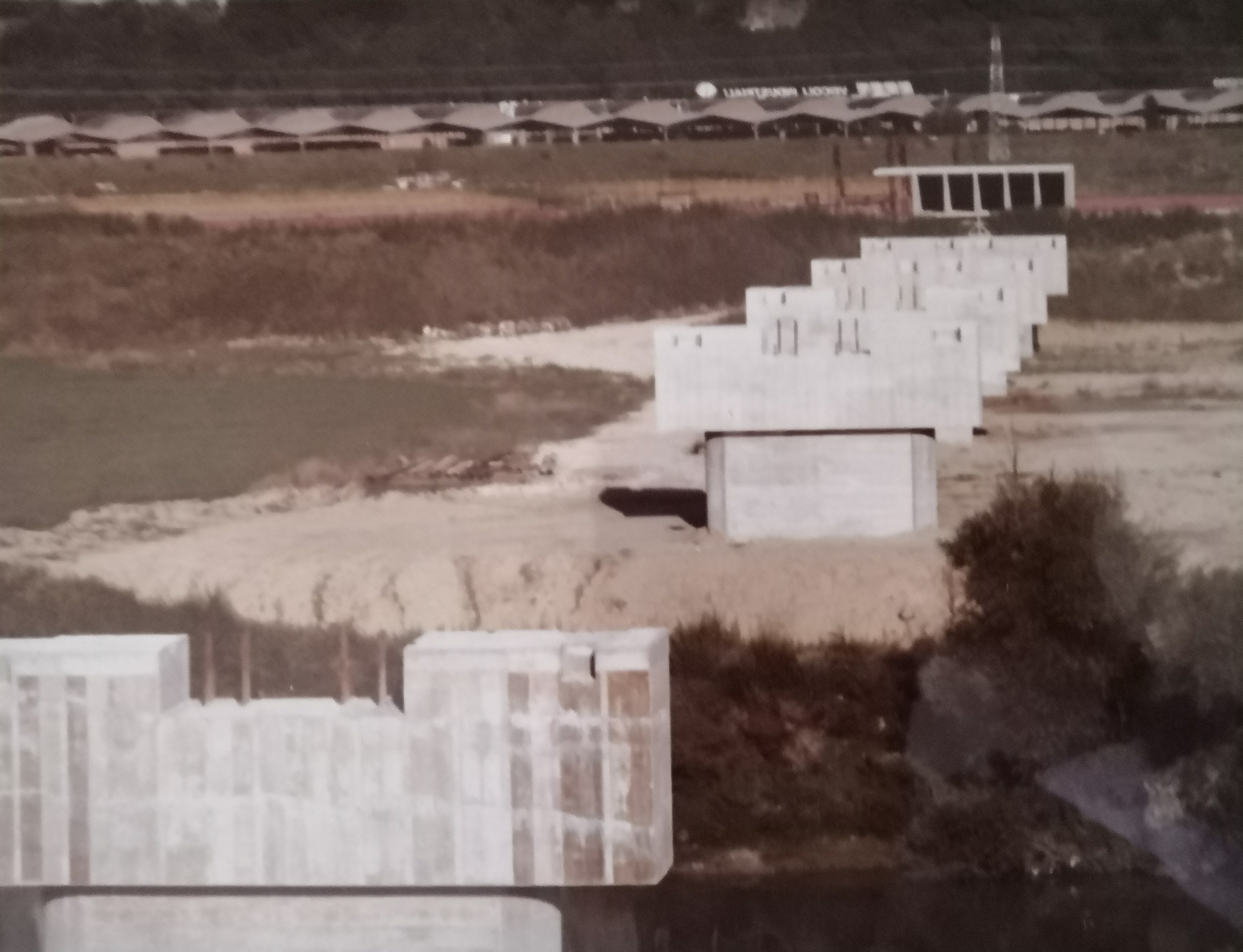 Piers of the Water Bridge over Tiber, during construction